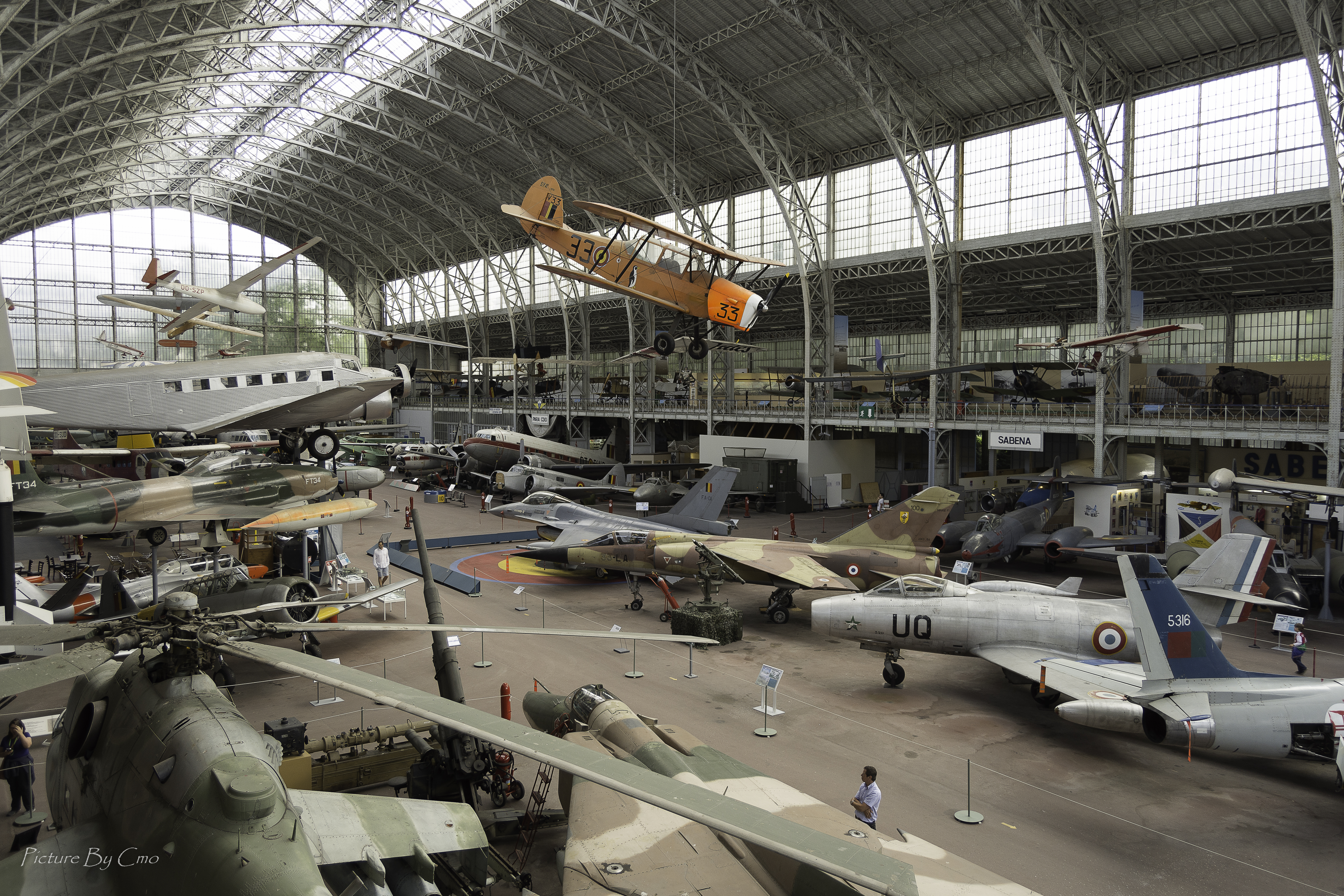 This is a file created at the museum: Royal Museum of the Armed Forces and of Military History in Brussels